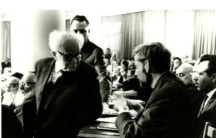 Uri Avnery (Hebrew: אורי אבנרי, also transliterated Uri Avneri, born 10 September 1923) is an Israeli writer and founder of the Gush Shalom peace movement.